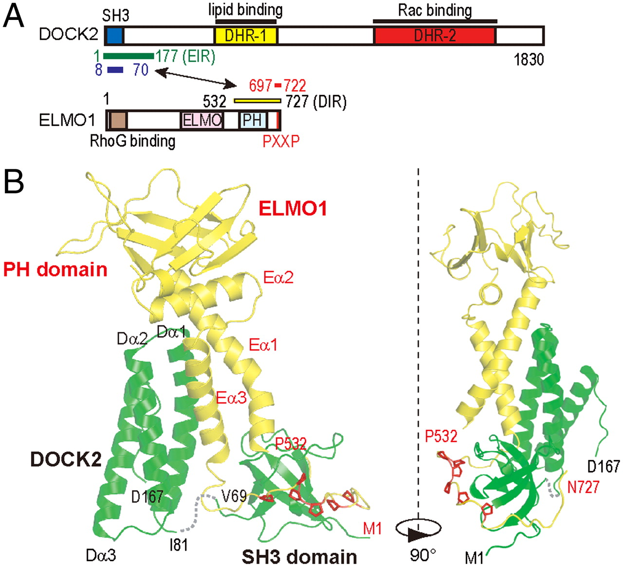 (A) A simple graphical representation of the protein domains for DOCK2 (mammalian homolog to CED-5) and ELMO1 (mammalian homolog for CED-12). On DOCK2/CED-5, the SH3-domain that binds to ELMO1/CED-12 is shown as a blue rectangle. On ELMO1, Proline-Rich regions are in light-blue. These indicate the regions in which ELMO1/CED-12 and DOCK2/CED-5 interact when forming a complex. (B) A crystalline 3D-representation of the heterodimer structure between DOCK2/CED-5 and ELMO1/CED-12. On the right is the same crystalline structure rotated 90°.